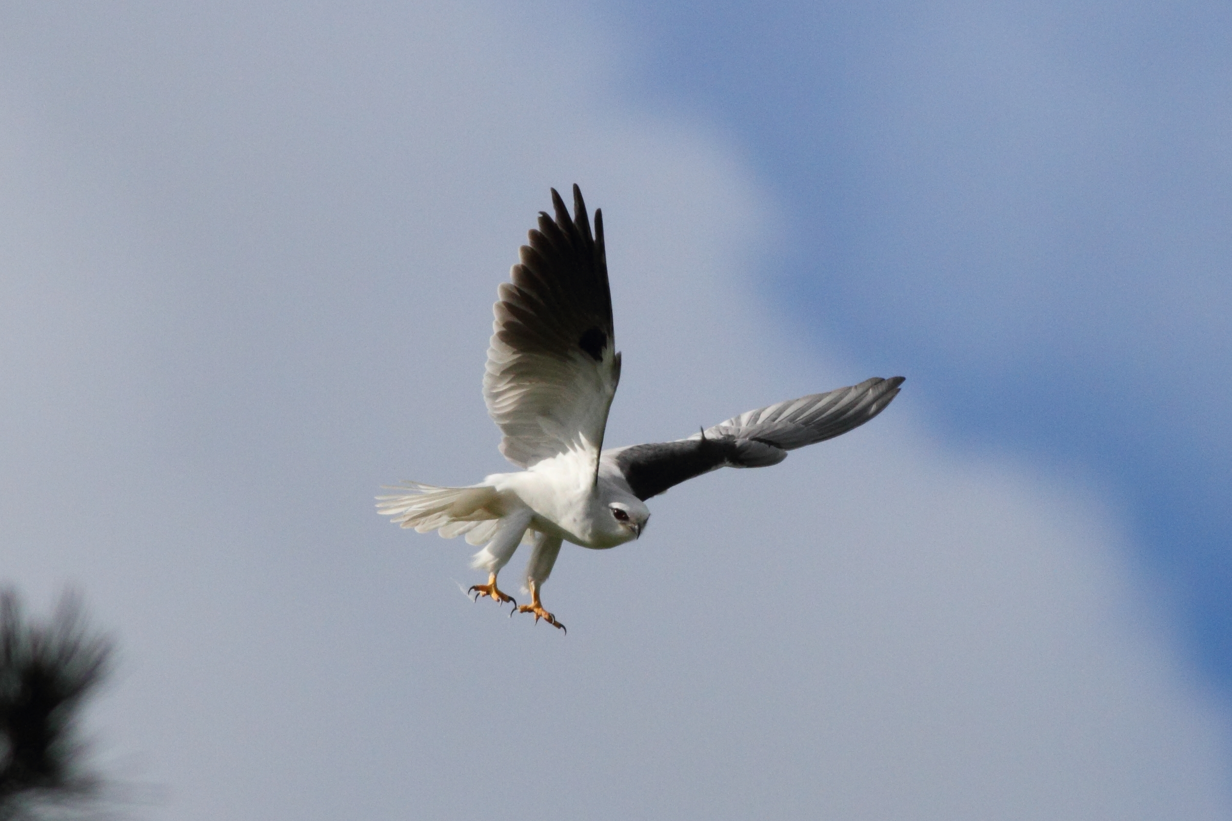 A Black-shouldered Kite flying at Coolart Wetlands, Mornington Peninsula, Victoria, Australia.